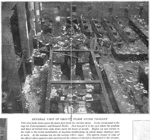 Wingfoot